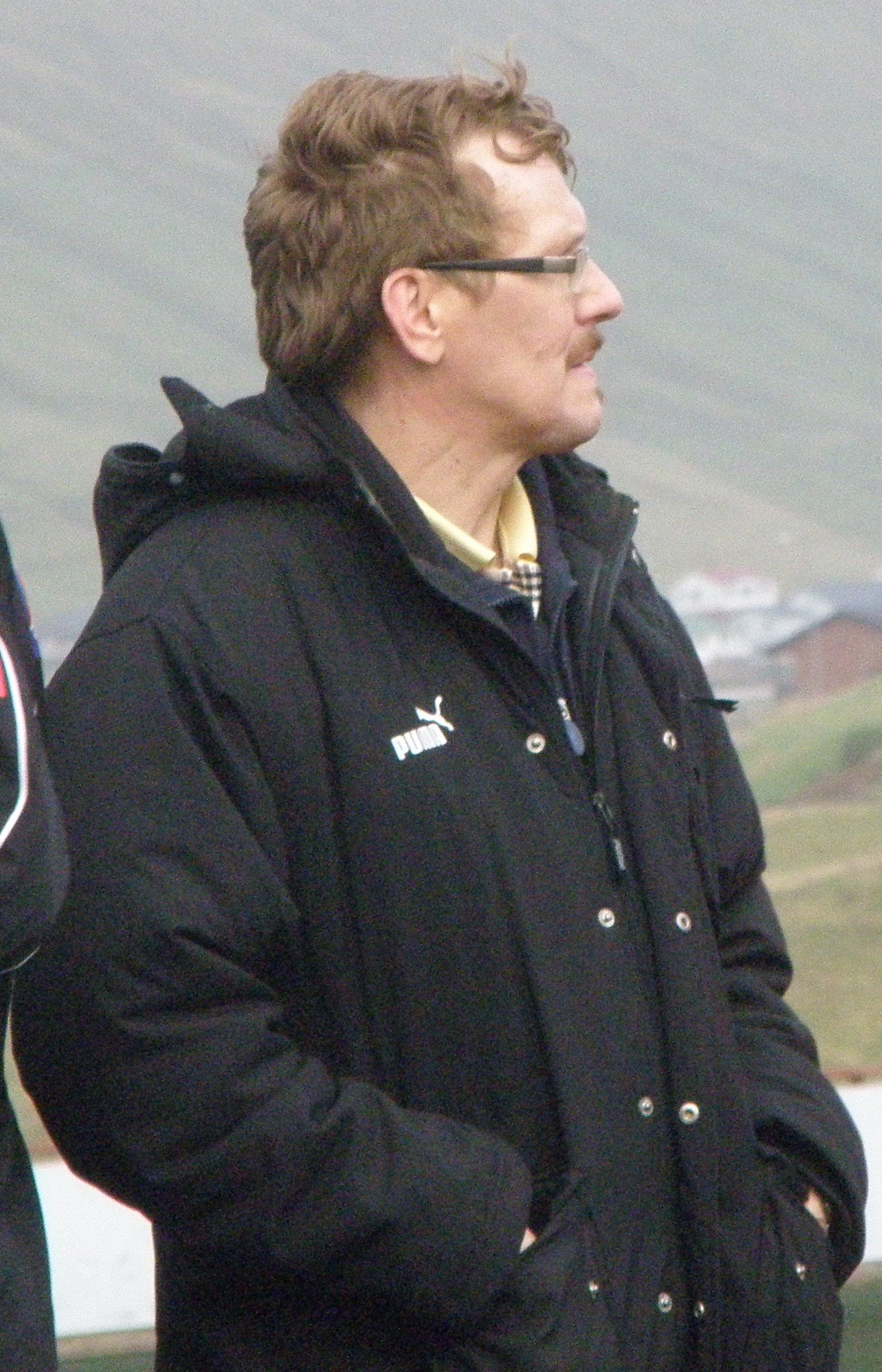 Jógvan Martin Olsen is a former coach for the Faroe Islands national football team. He was manager for the national team in the period 2005-08 and assisting manager for the national team 1996-2005. He is currently the coach of Víkingur Gøta. Earlier Olsen was a football player himself; he played for B68 Toftir 1978-93 and for LÍF Leirvík from 1994-95. LÍF Leirvík later merged with GÍ Gøta and became Víkingur Gøta. Olsen was coach for LÍF at the same time as he was playing himself. From 2002-04 he was the coach for NSÍ Runavík. Føroyskt: Jógvan Martin Olsen er fyrrverandi landsliðvenjari hjá føroyska A-landsliðnum. Hann var høvuðsvenjari hjá landsliðnum 2005-08 og hjálparvenjari 1996-2005. Jógvan Martin hevur verið venjari hjá Víkingi 2009-10 og hjá NSÍ 2002-2004. Hann er eisini fyrrverandi fótbóltsleikari. Hann spældi við B68 1978-93 og við LÍF frá 1994-95.